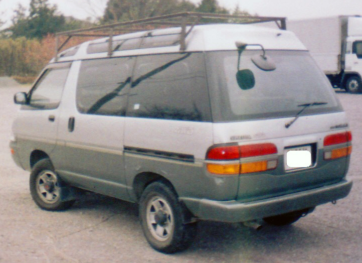 Toyota TownAce (2nd generation)